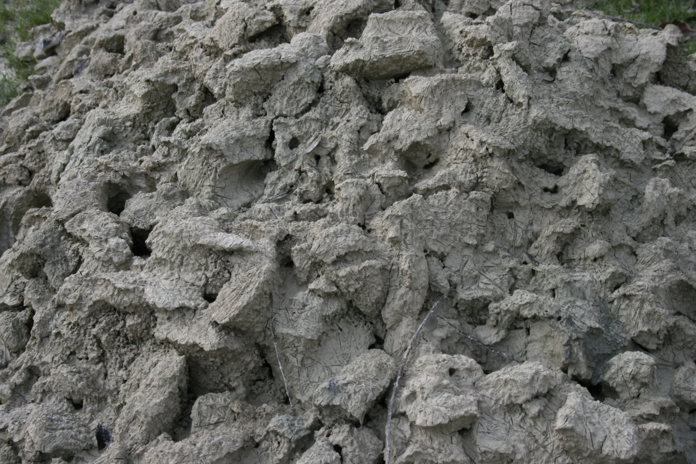 Glacial clay brought up by a geotecnical drilling at Århus Å